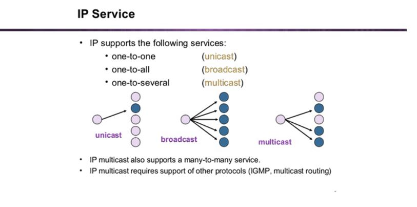 difference_unicast_multicast_broadcast